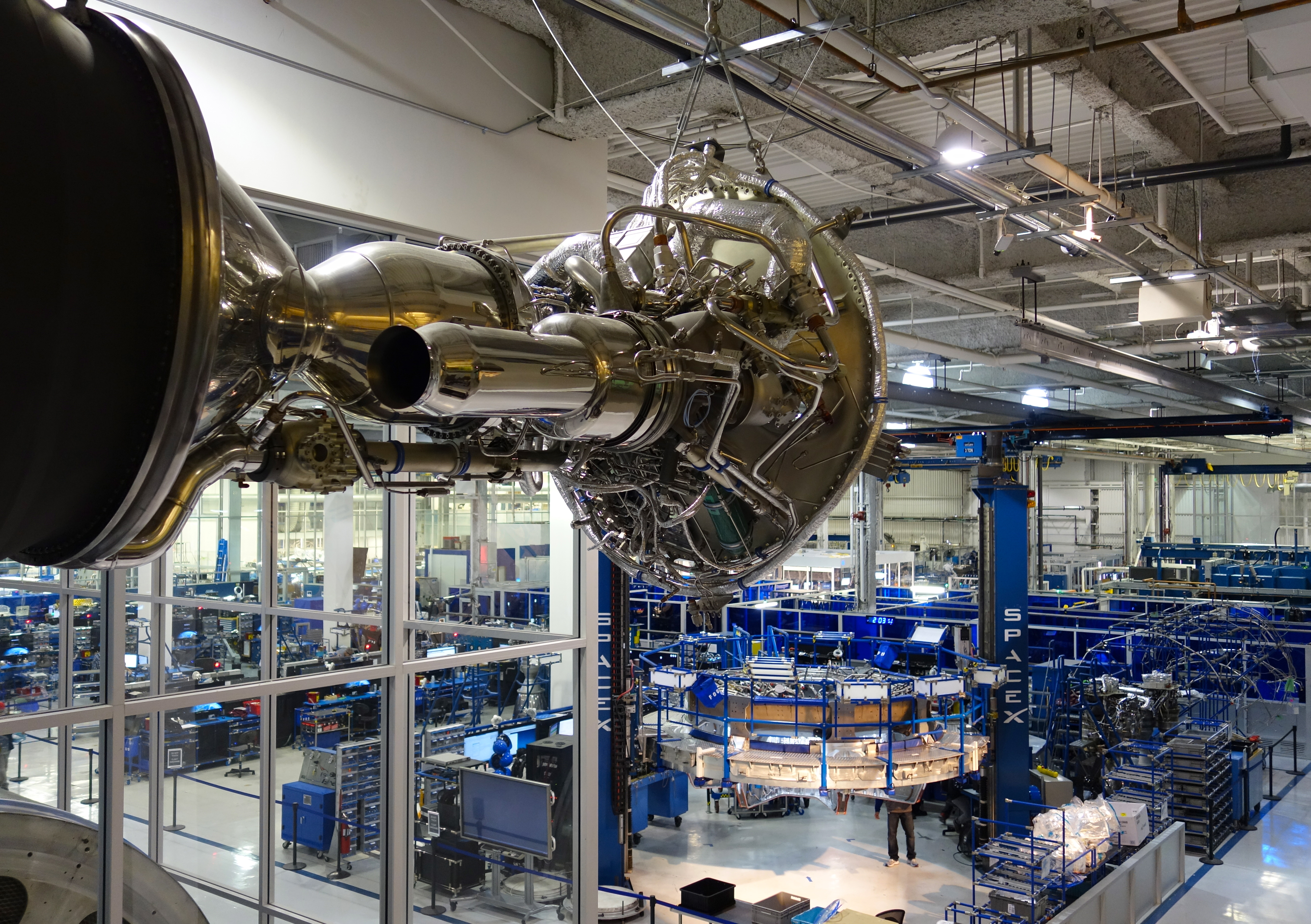 Merlin Blaster @SpaceX HQ, one of 28 engines in the Falcon Heavy